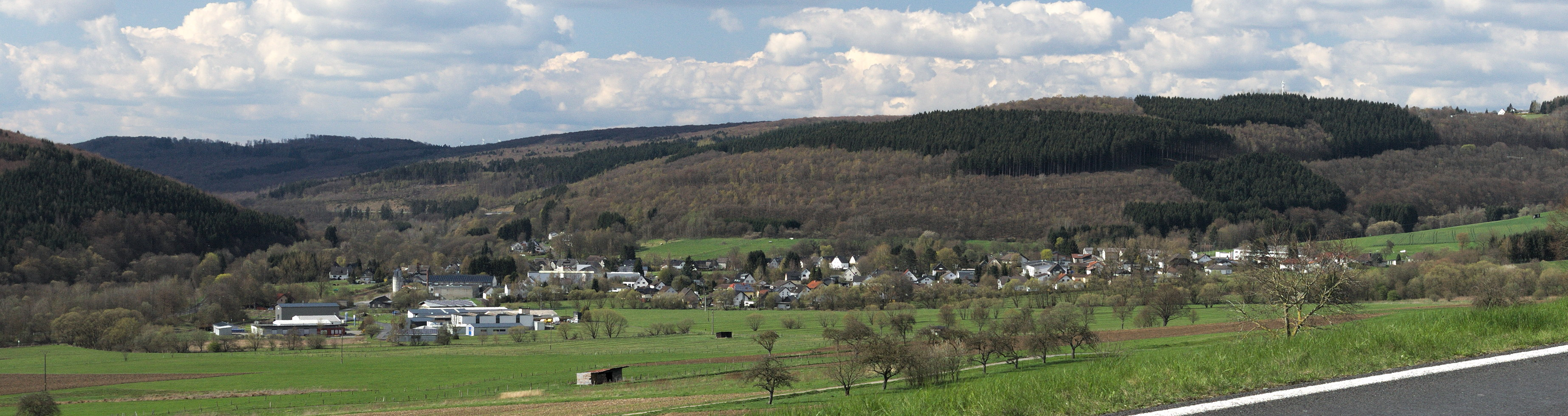 Panorama view of Unnau-Korb, Westerwald, Germany. Taken from Erbacher Straße south of Unnau village